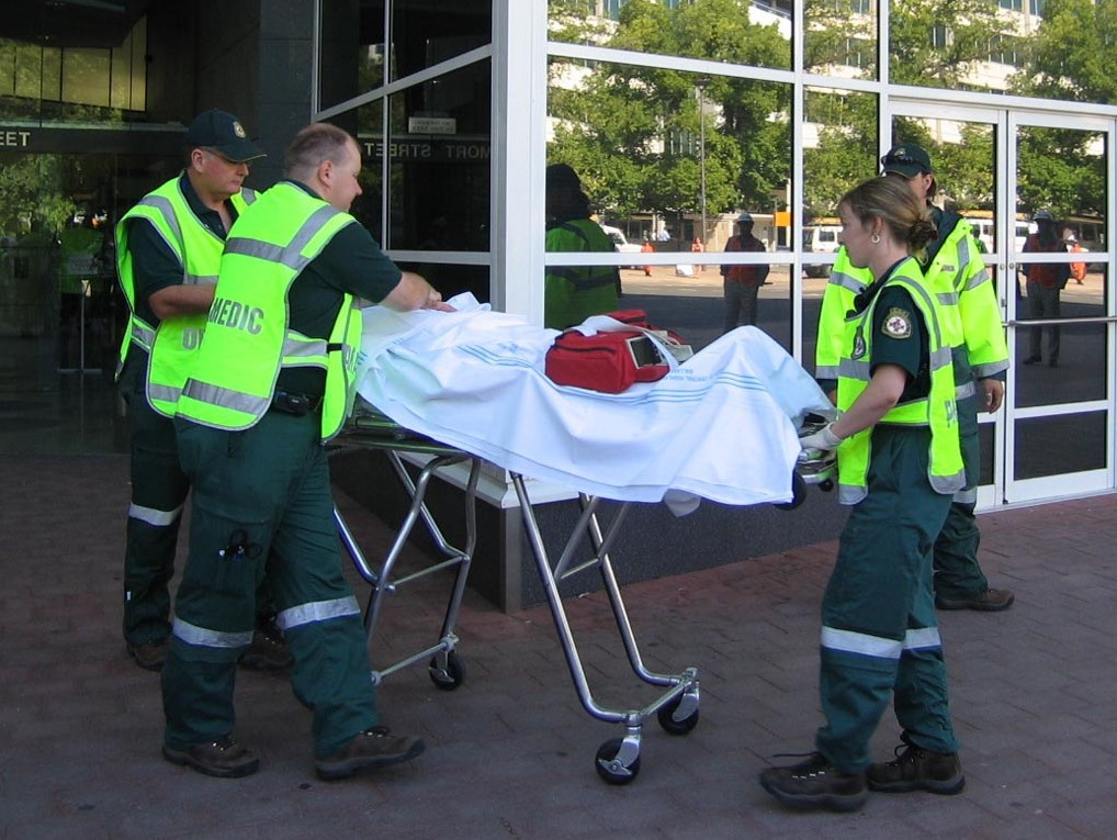 ACTAS Paramedics transport a mock-victim during a mass casualty exercise in Canberra.